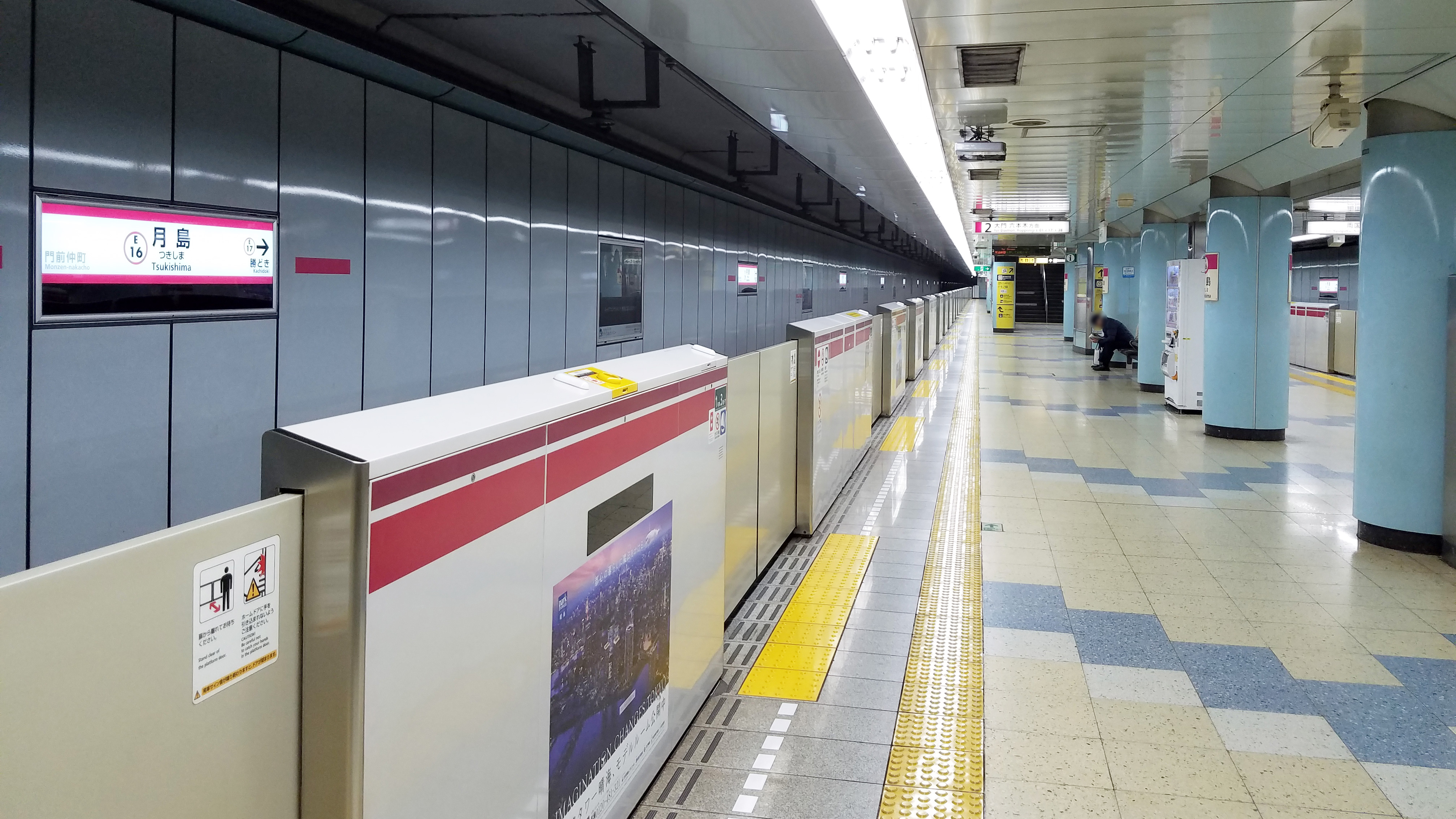 The platform at Tsukishima Station on the Toei Ōedo Line in Chūō city, Tokyo, Japan